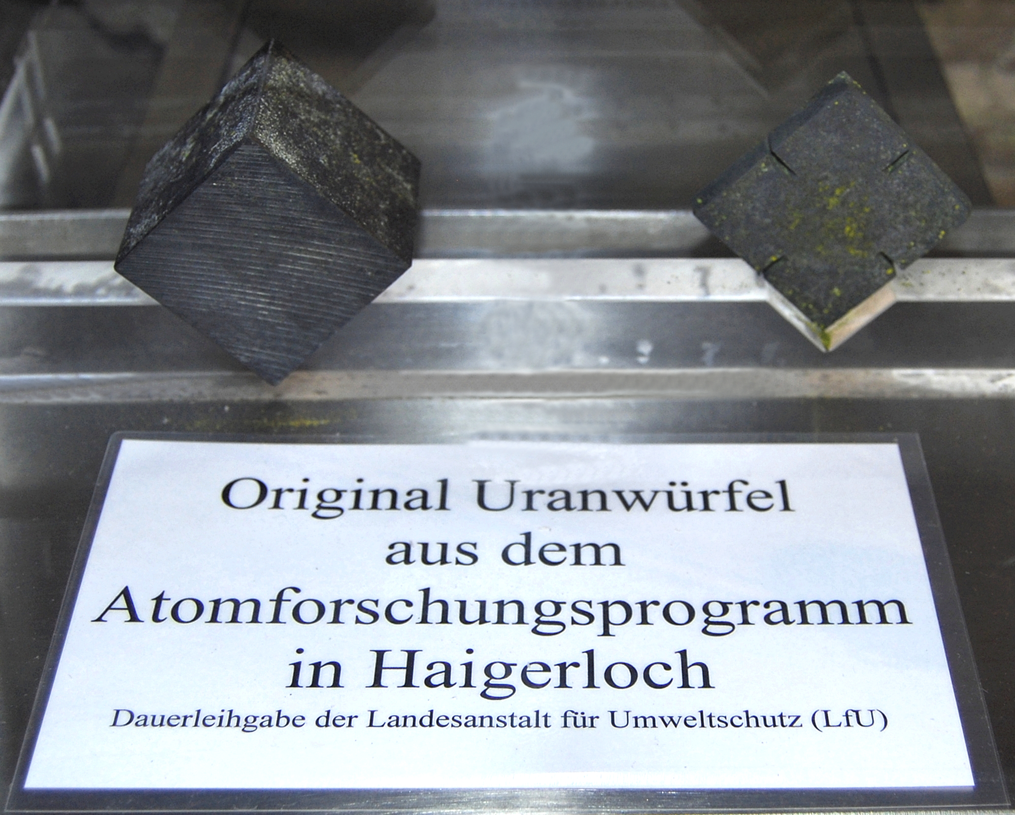 Original cubes of uranium from the German experimental nuclear pile at Haigerloch. On display at the Atomkeller-Museum in Haigerloch. The label (in german) reads: Original Uranwürfel aus dem Atomforschungsprogramm in Haigerloch Dauerleihgabe der Landesanstalt für Umweltschutz (LfU) It translates to: Orignal uranium cubes from the nuclear research program in Haigerloch Permanent loan from the State Institute for Environmental Protection